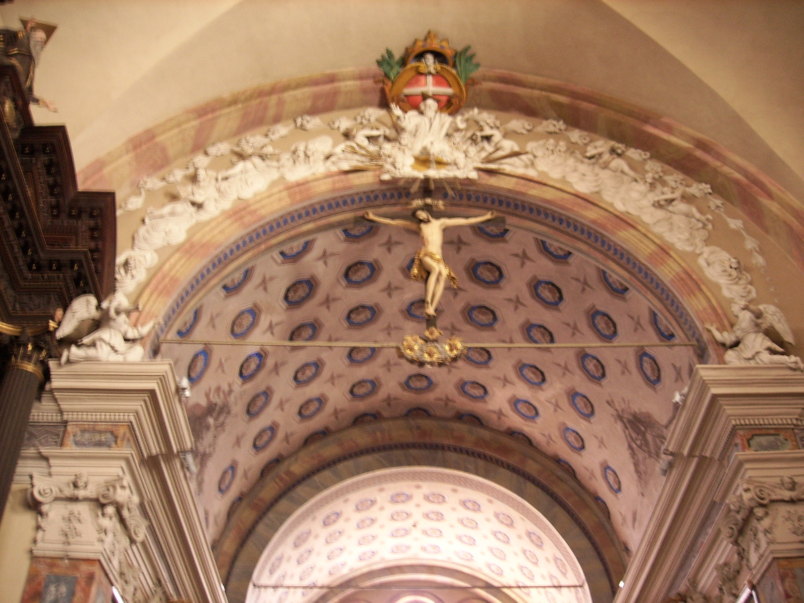 Collegiata Church Bormio, Italy